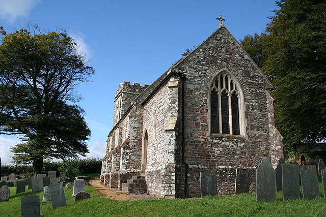 Twitchen: St Peter’s church. The structure, excepting the west tower – which is slightly out of alignment with the nave and chancel – was remodelled in the Victorian era. Many of the 19th century gravestones are of slate and their inscriptions are easily read. The church stands perched above the hamlet of cottages and farms